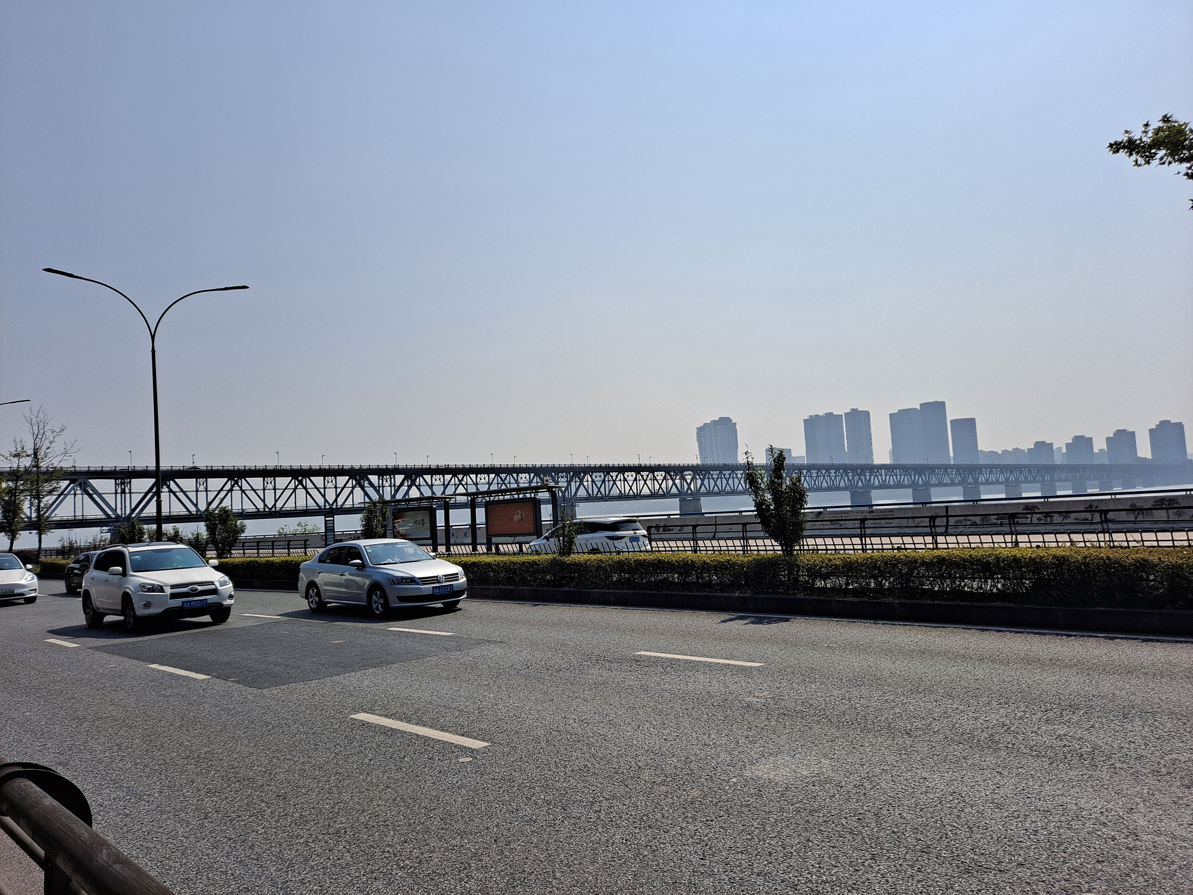 Qiantang River Bridge